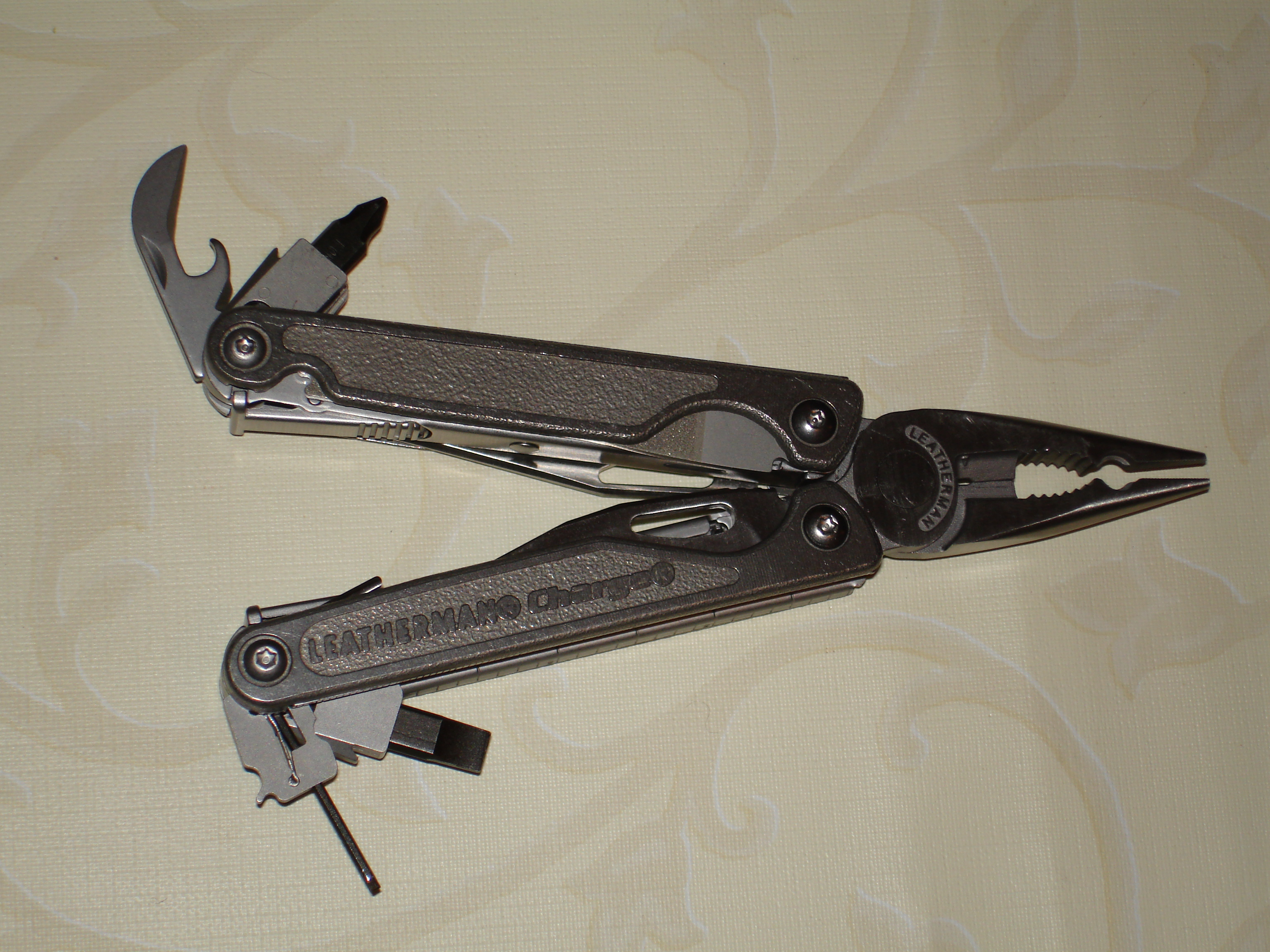 Leatherman Charge TTi